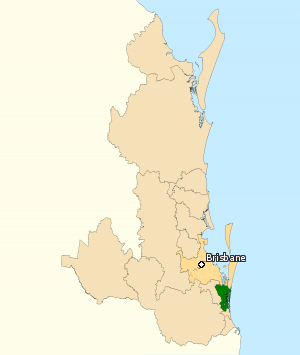 This image incorporates data that is: © Commonwealth of Australia (Australian Electoral Commission) 2009 Division of Fadden 2010